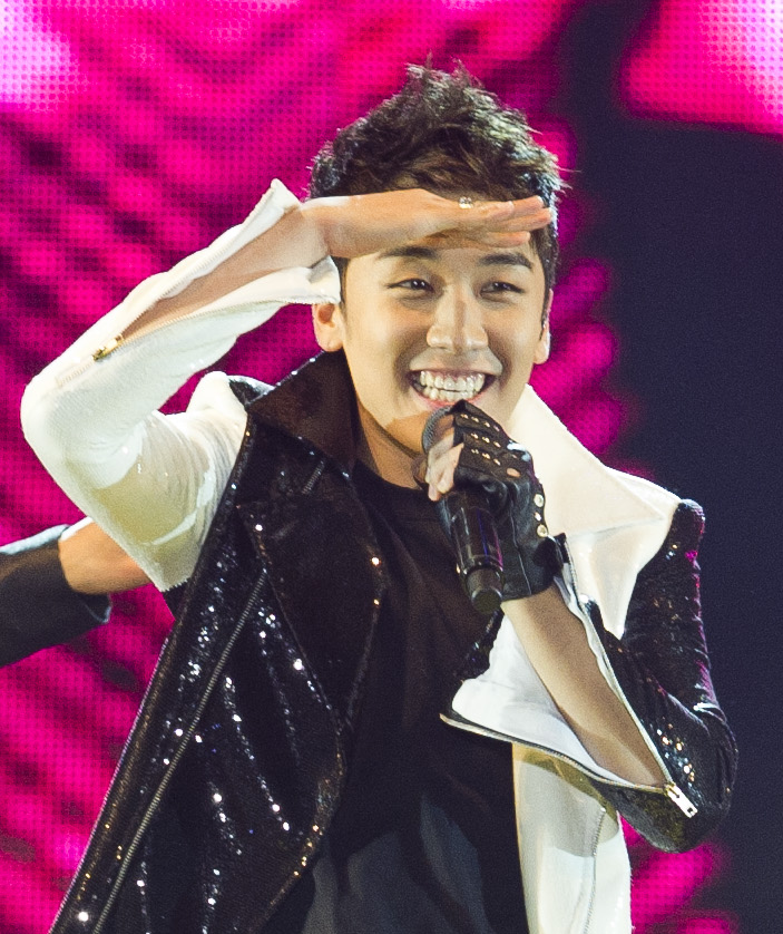 Hallyu, the Korean wave Hallyu refers to spread of Korean culture around the world. Big Bang, a Korean boy band who recently released another album has been promoting themselves not as Hallyu stars, but as artists.